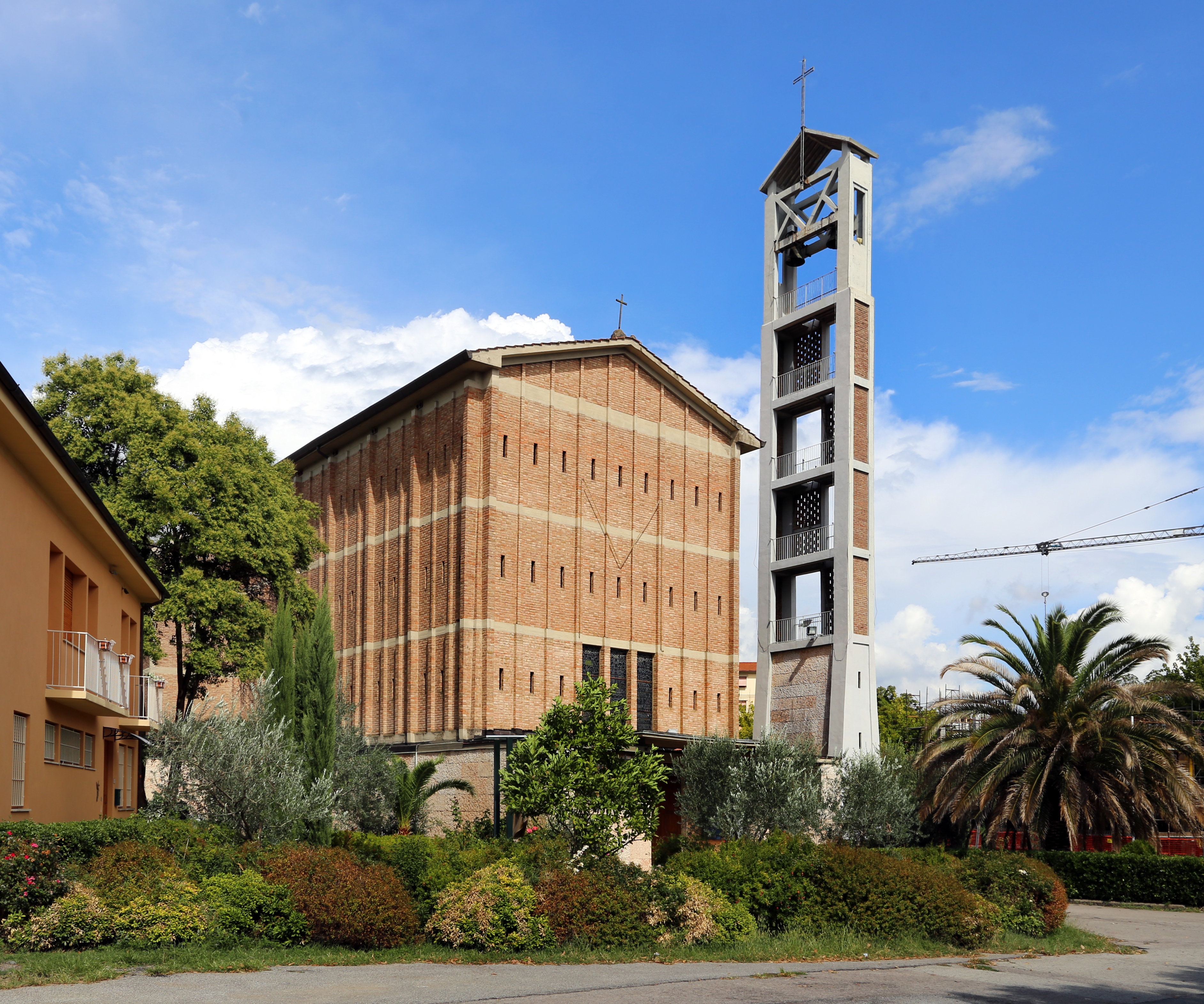 Sante Maria e Tecla (Pistoia)